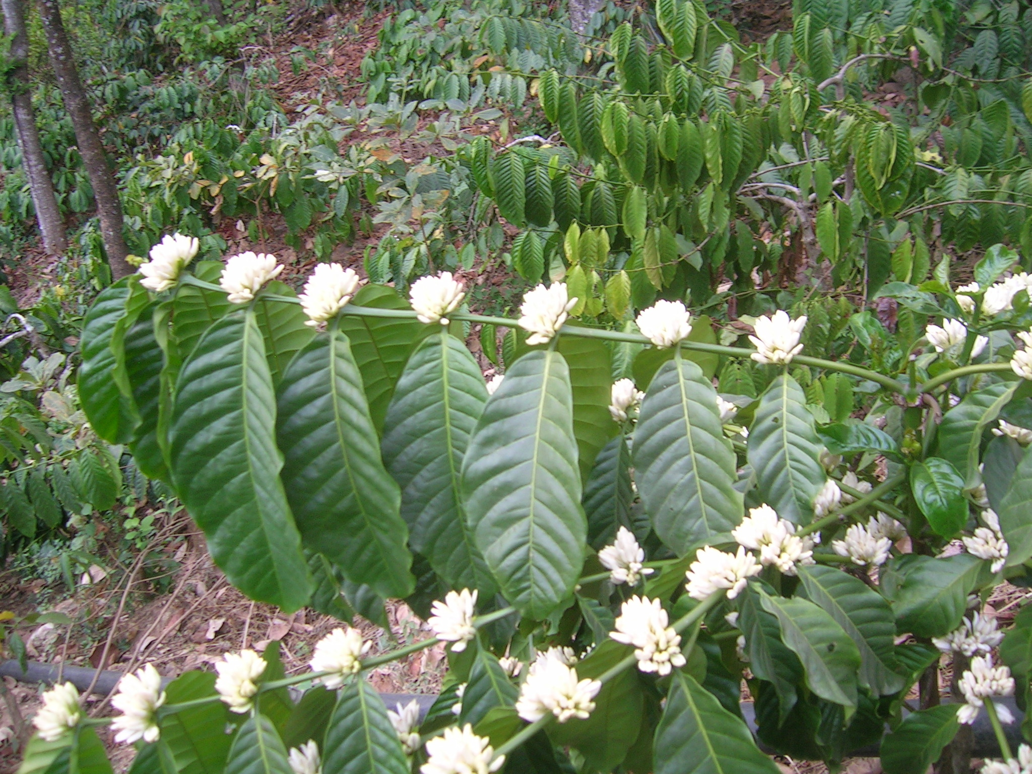 Coffee flowers(Coffea canephora (syn. Coffea robusta) ?) from Chikmagalur, India